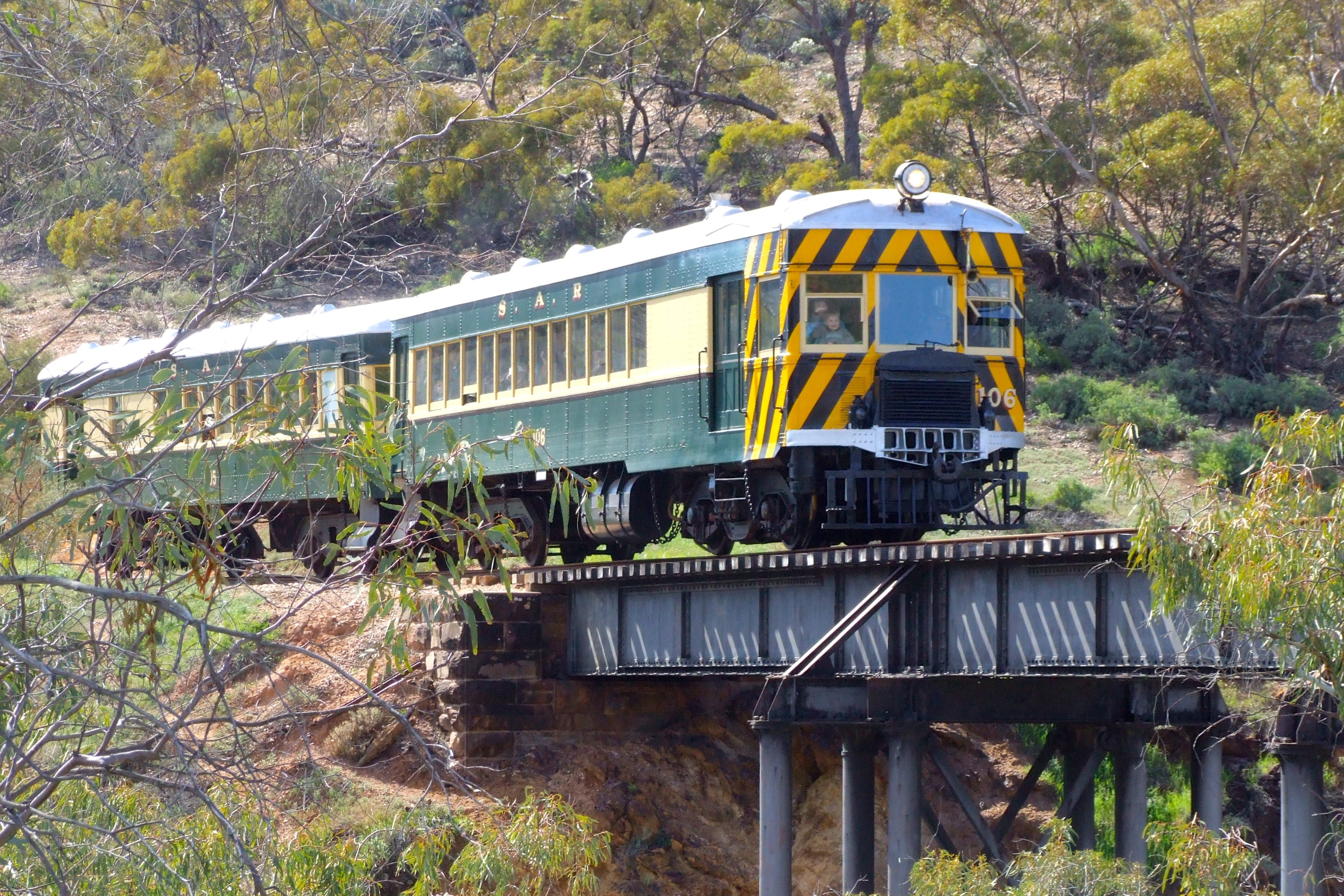 A self-propelled railcar (no. 106) of the Pichi Richi Railway, a 3 ft 6 in (1067 mm) heritage line in South Australia, in 2006. The railcar, formerly of the South Australian Railways, has a silver roof, green and cream sides, and black and yellow stripes on the front. It is a narrow-bodied version of the Model 75 railcars made by the J.G. Brill Company circa 1925. A plate-girder bridge, on which the he railcar is moving, is in the foreground. In the background is a hill with eucalyptus trees.